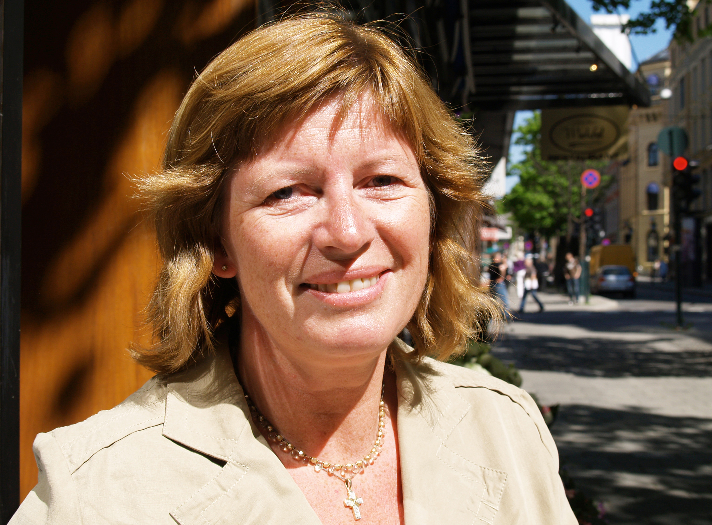 Ingeborg Midttømme, bishop of Møre.